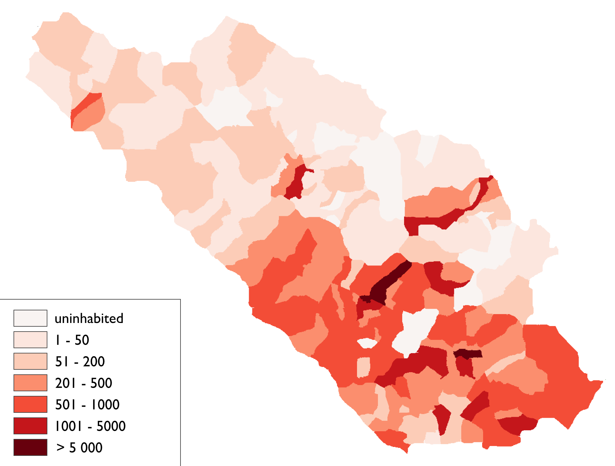 Population map of Tropolje according to the 2013 Census